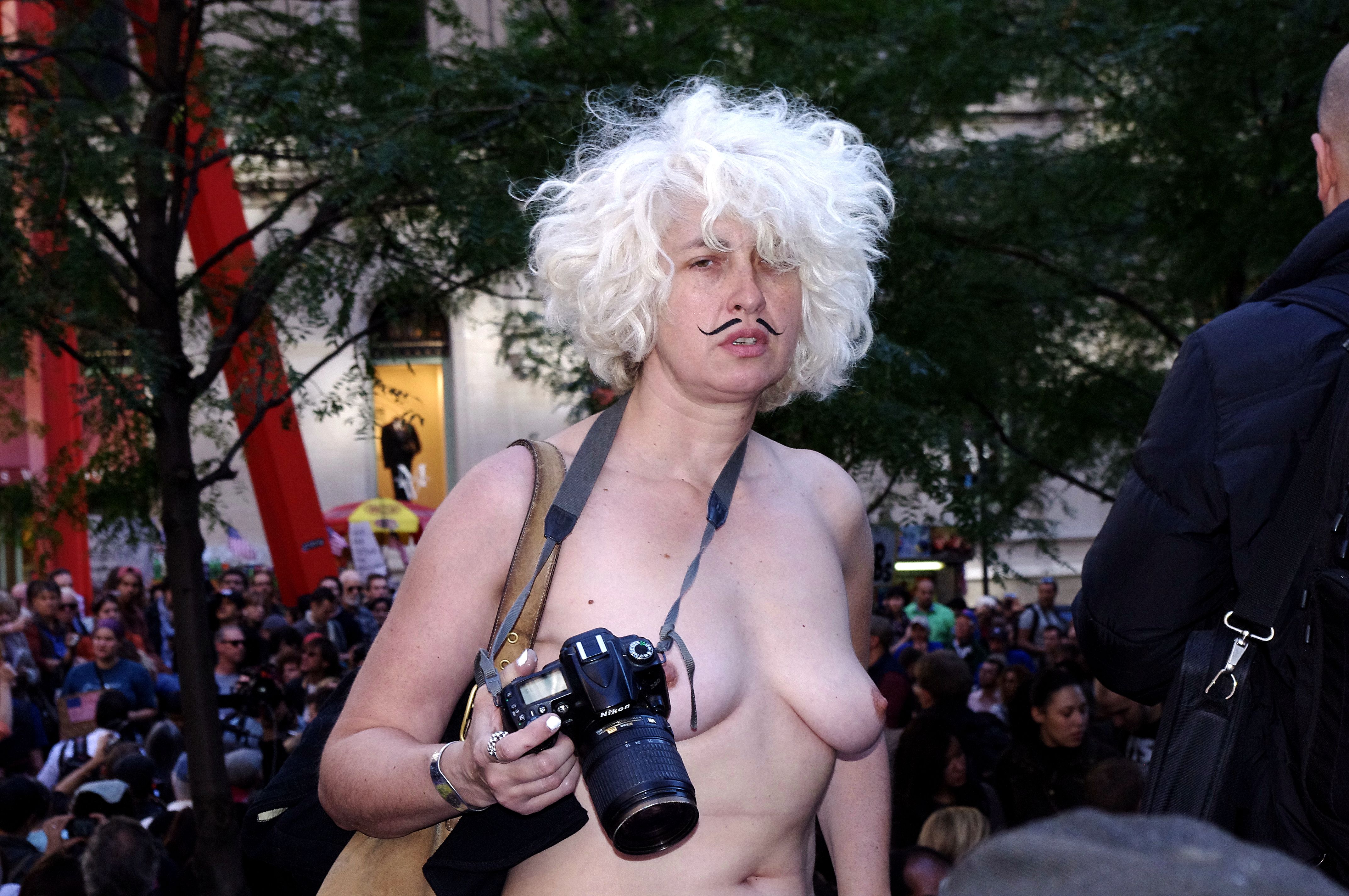 Holly Van Voast New York City journalist and topless activist. Photos of Occupy Wall Street on Day 20, October 5, the day of the big march with unions in solidarity with OWS.